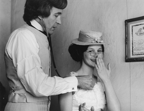 Los gauchos judíos - película argentina de 1974